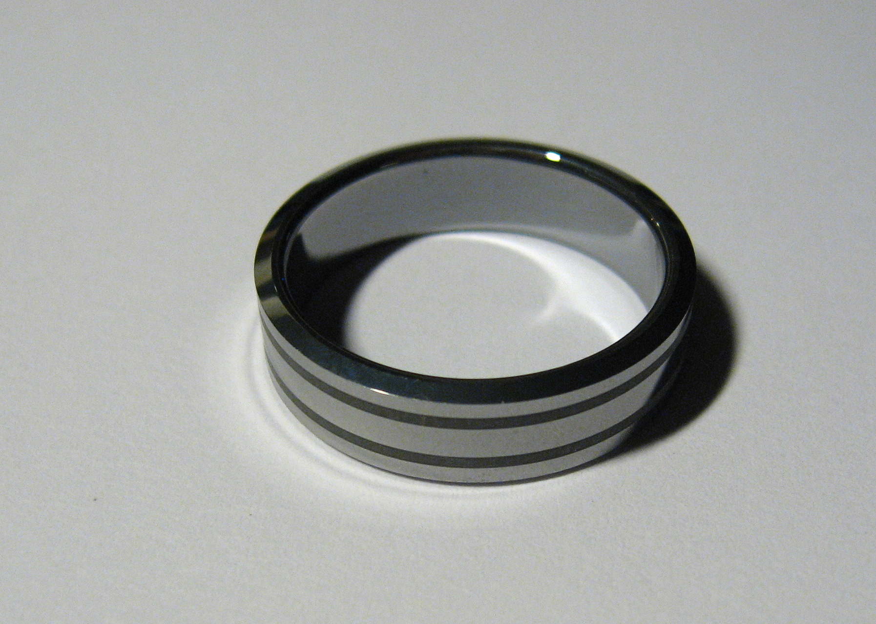 Ring made of tungsten (tungstencarbide?)